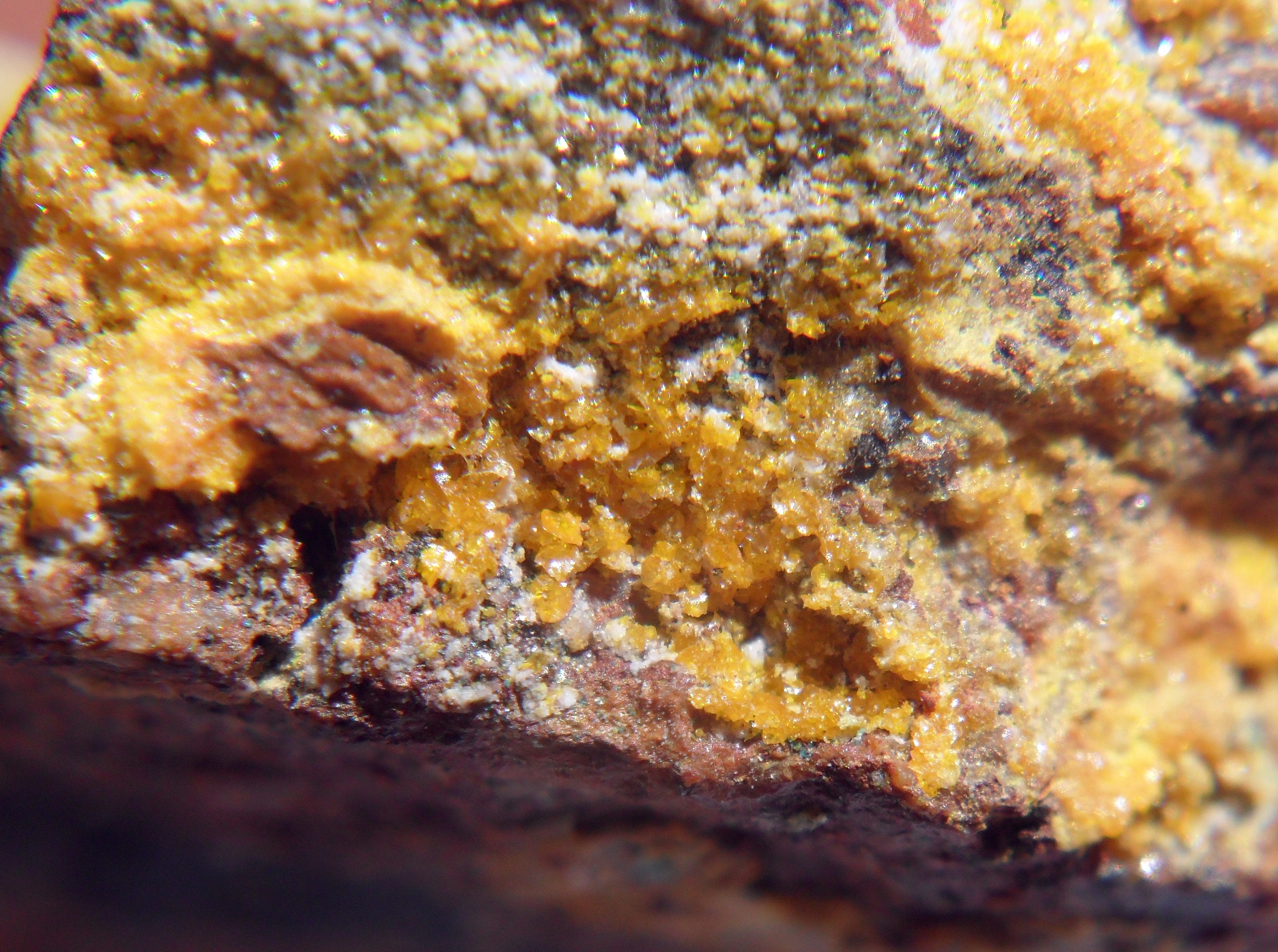 Seeligerite crystals, from Caracoles, Sierra Gorda District, Tocopilla Province, Antofagasta Region, Chile. The image field is 5 mm wide.